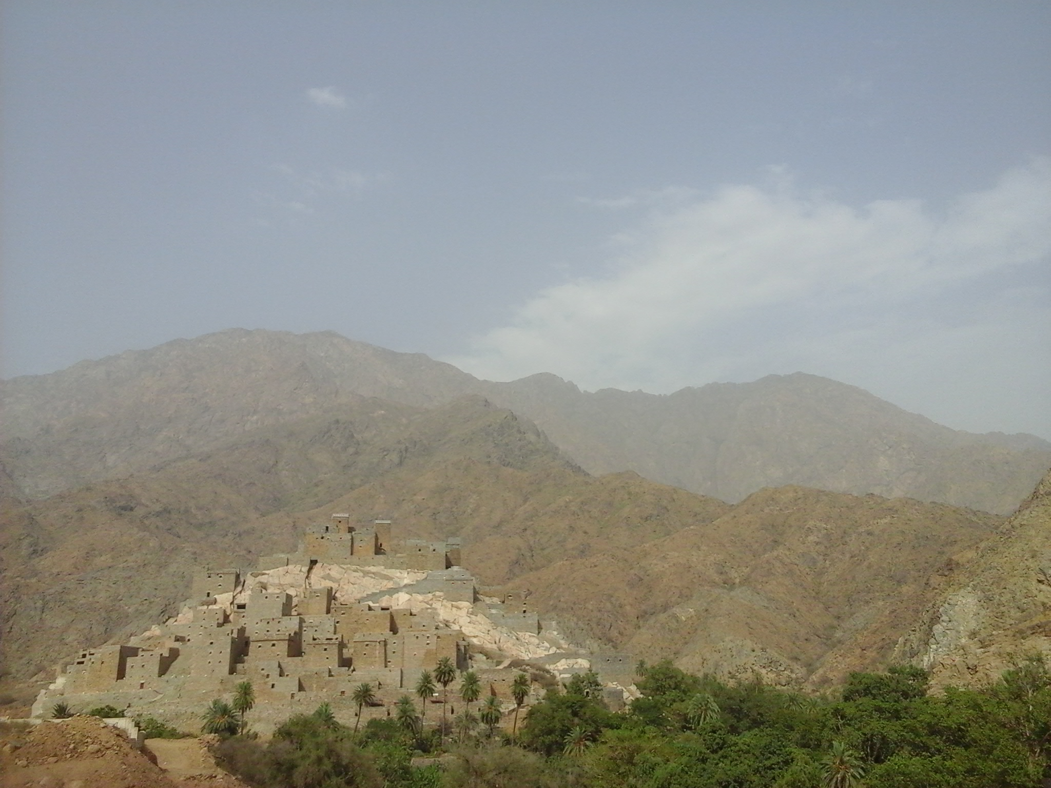 View of the village of Thee Ain heritage